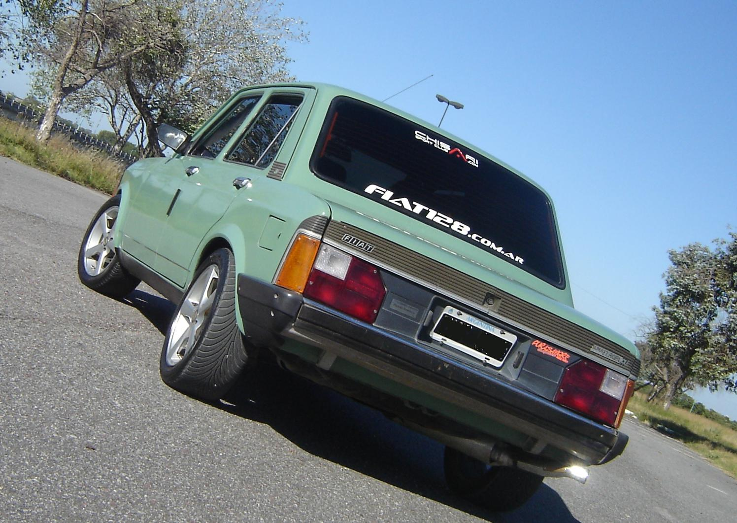 fiat 128 personal